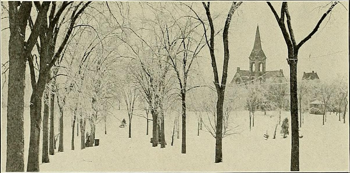 View of the Chestnut Ridge Historical Area, looking down the elm-laden east portion of Olmsted Road. South College and the Chapel can be seen in the background.